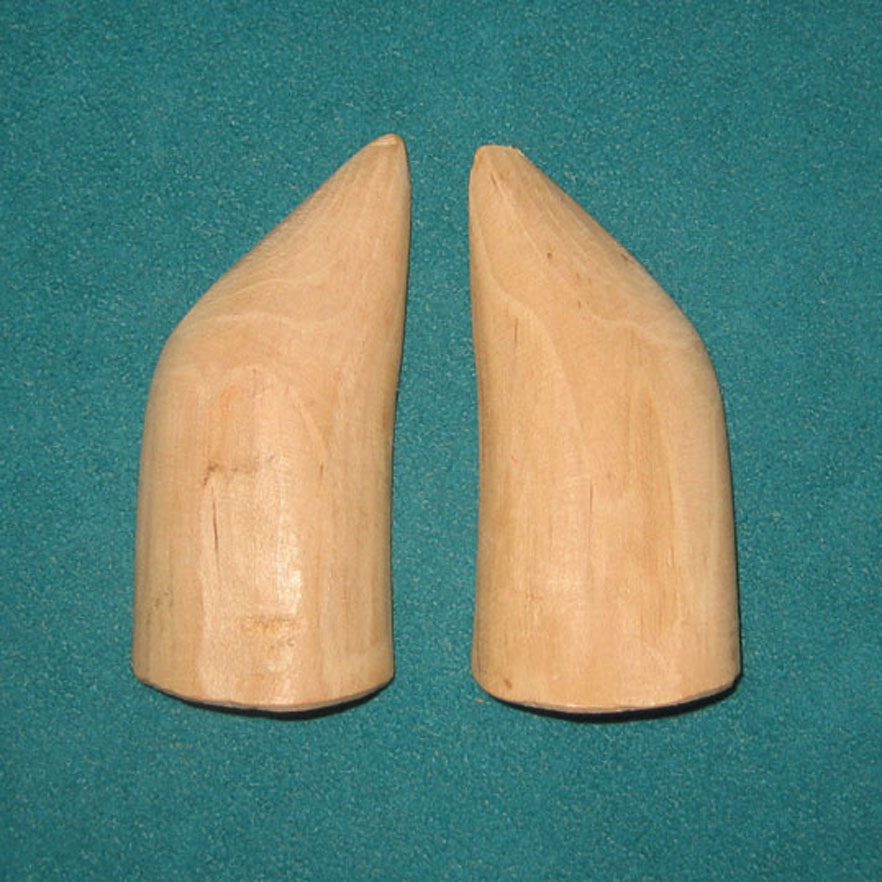 Wooden jiao bei divination blocks